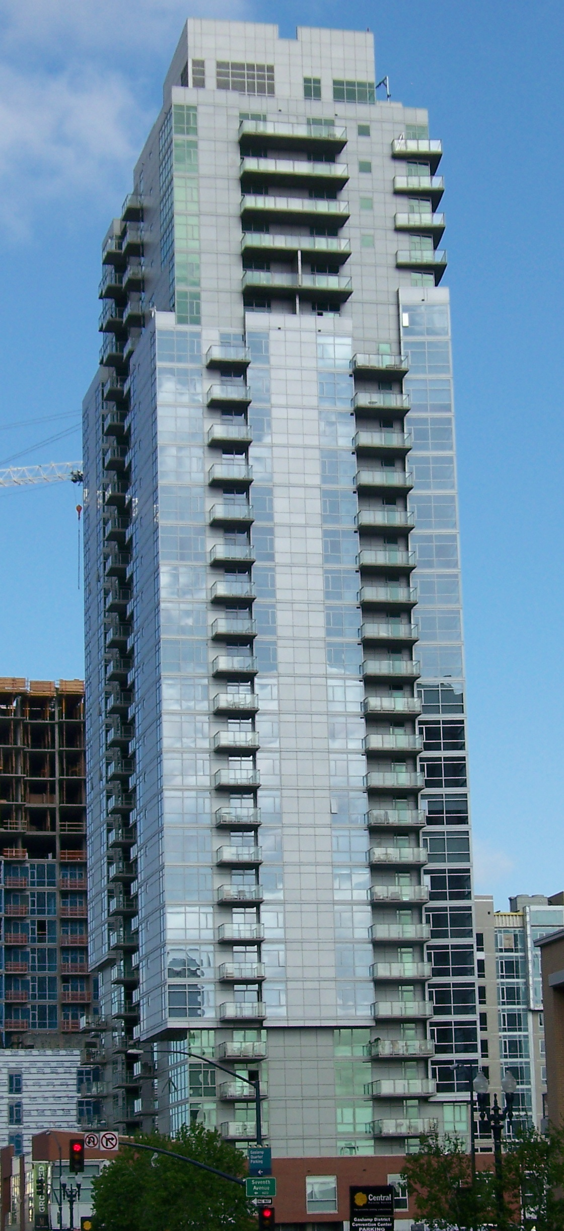 The Mark skyscraper in San Diego, California. Construction was completed in 2007.